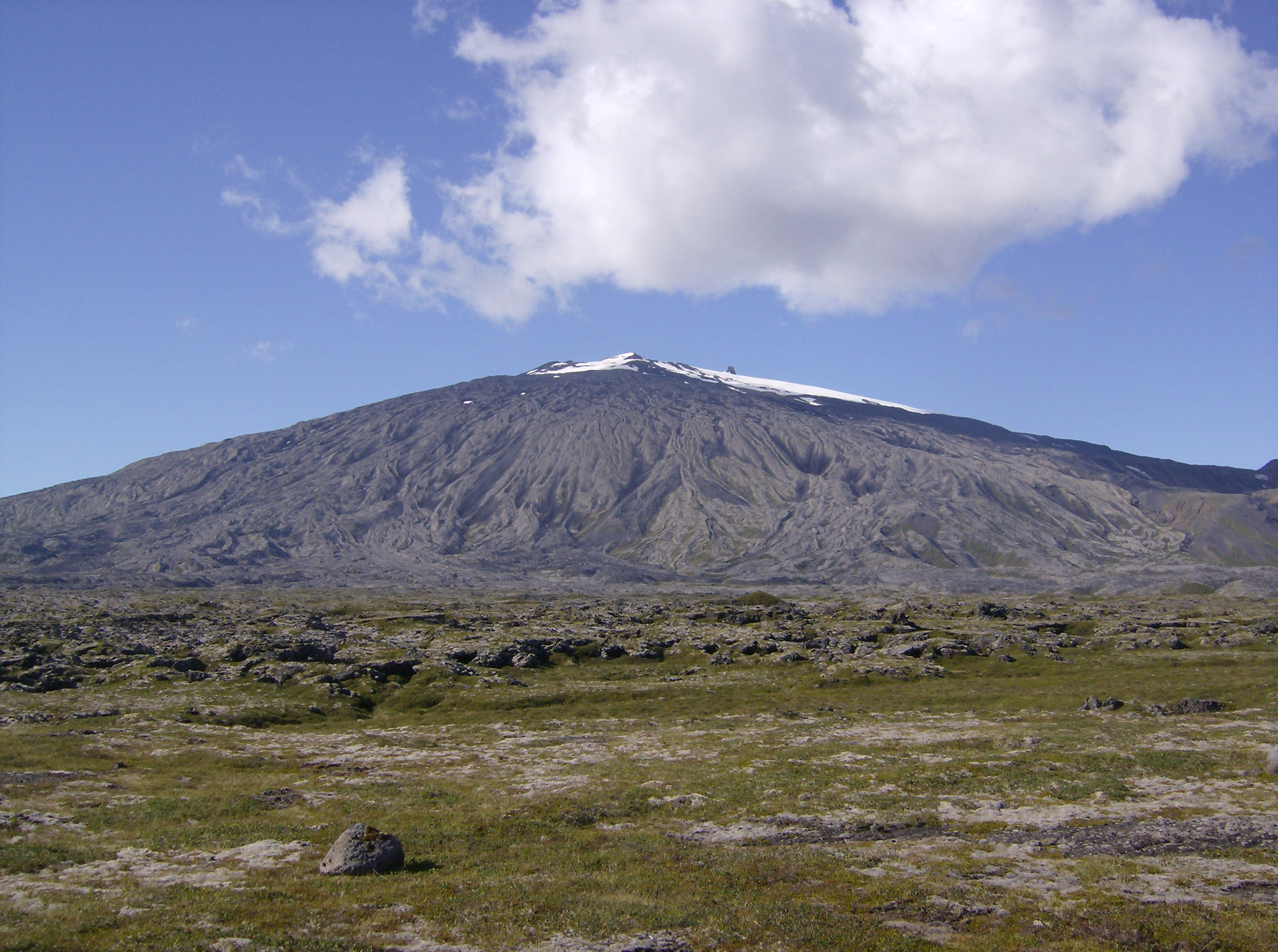 Snæfellsjökull - Iceland - south face